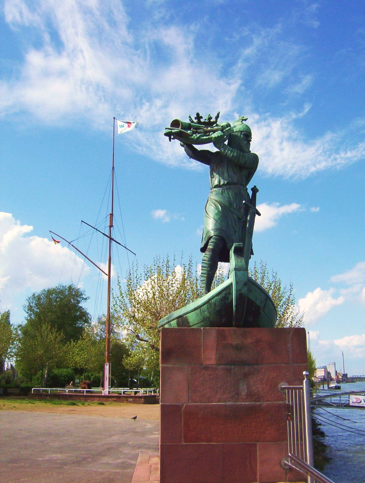 Germany /Worms: Hagen-Memorial